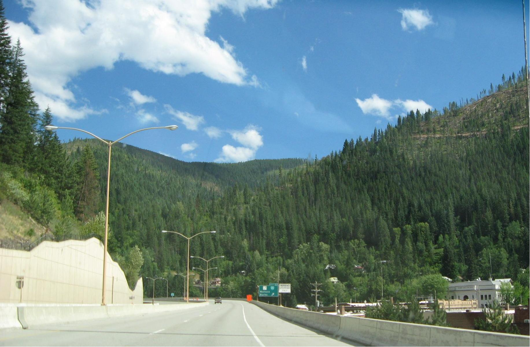 A picture of Interstate 90 in Idaho in Wallace, Idaho.